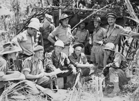 Australian and US officers conducted an orders group near Wanigela, New Guinea in October 1942. Present include Brigadier-General J. Hanton Macnider, commander of US 32nd Division, Major Harry Harcourt (seated, wearing beret), CO of the 2/6th Independent Company, and officers from the 2/10th Battalion and ANGAU.